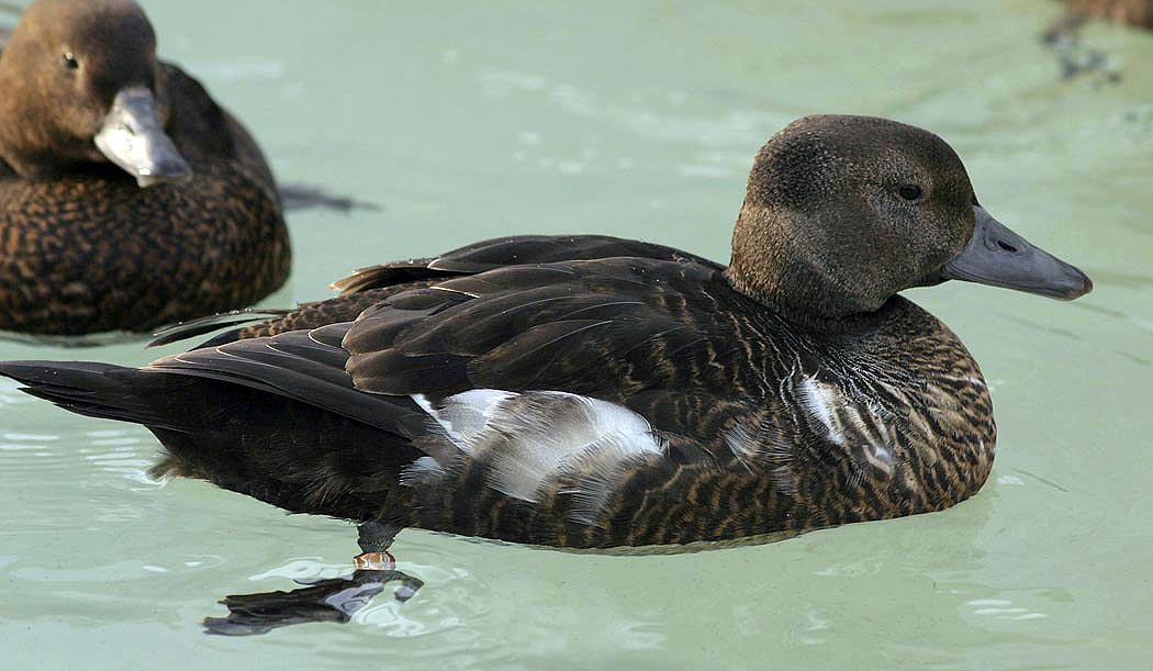 Threatened Steller's eider (Polysticta stelleri) female, Alaska SeaLife Center, Seward, Alaska